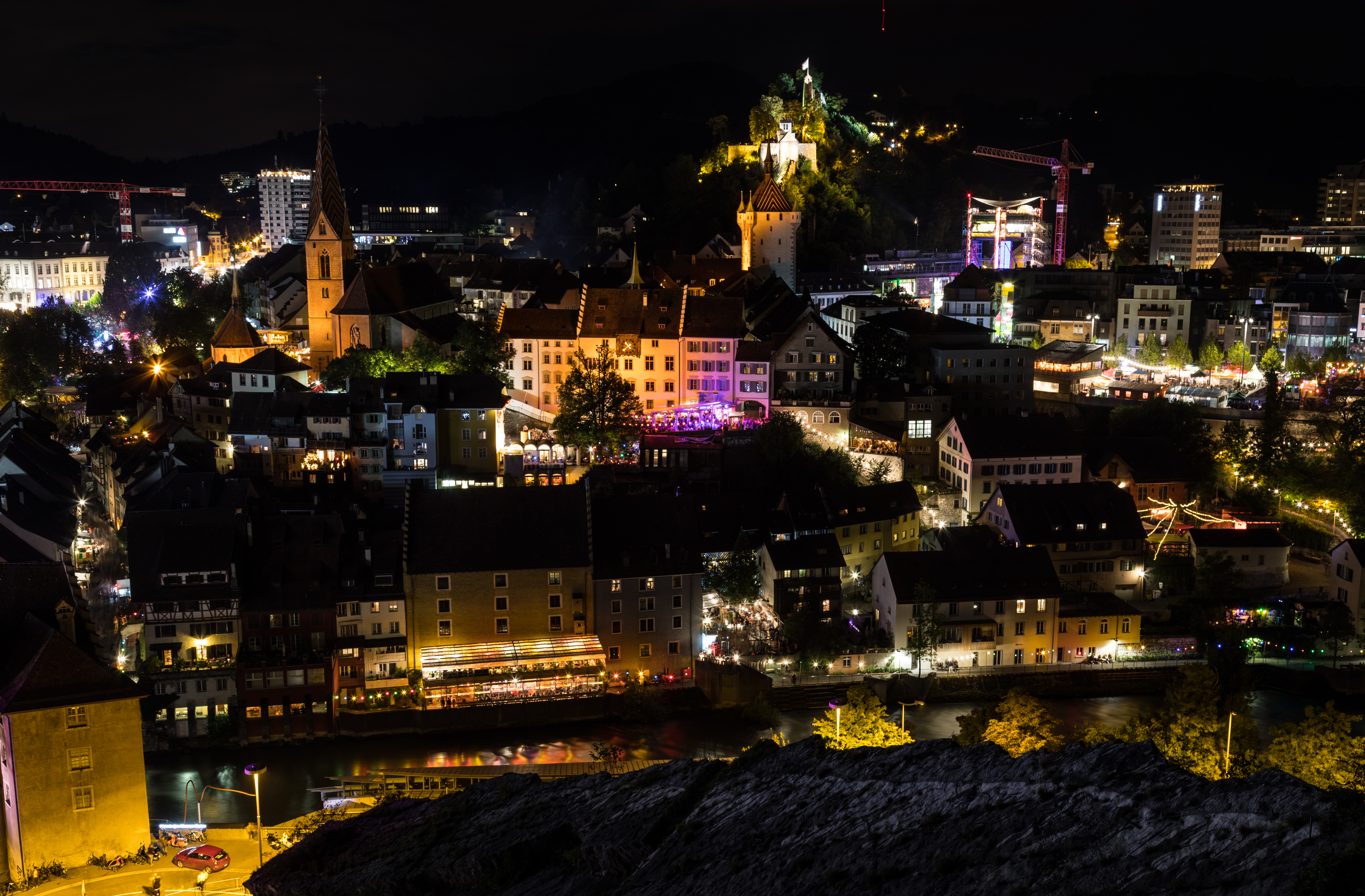 View on downtown Baden AG during the 2017 Badenfahrt festival